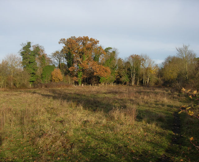 Fulbourn Fen Nature Reserve